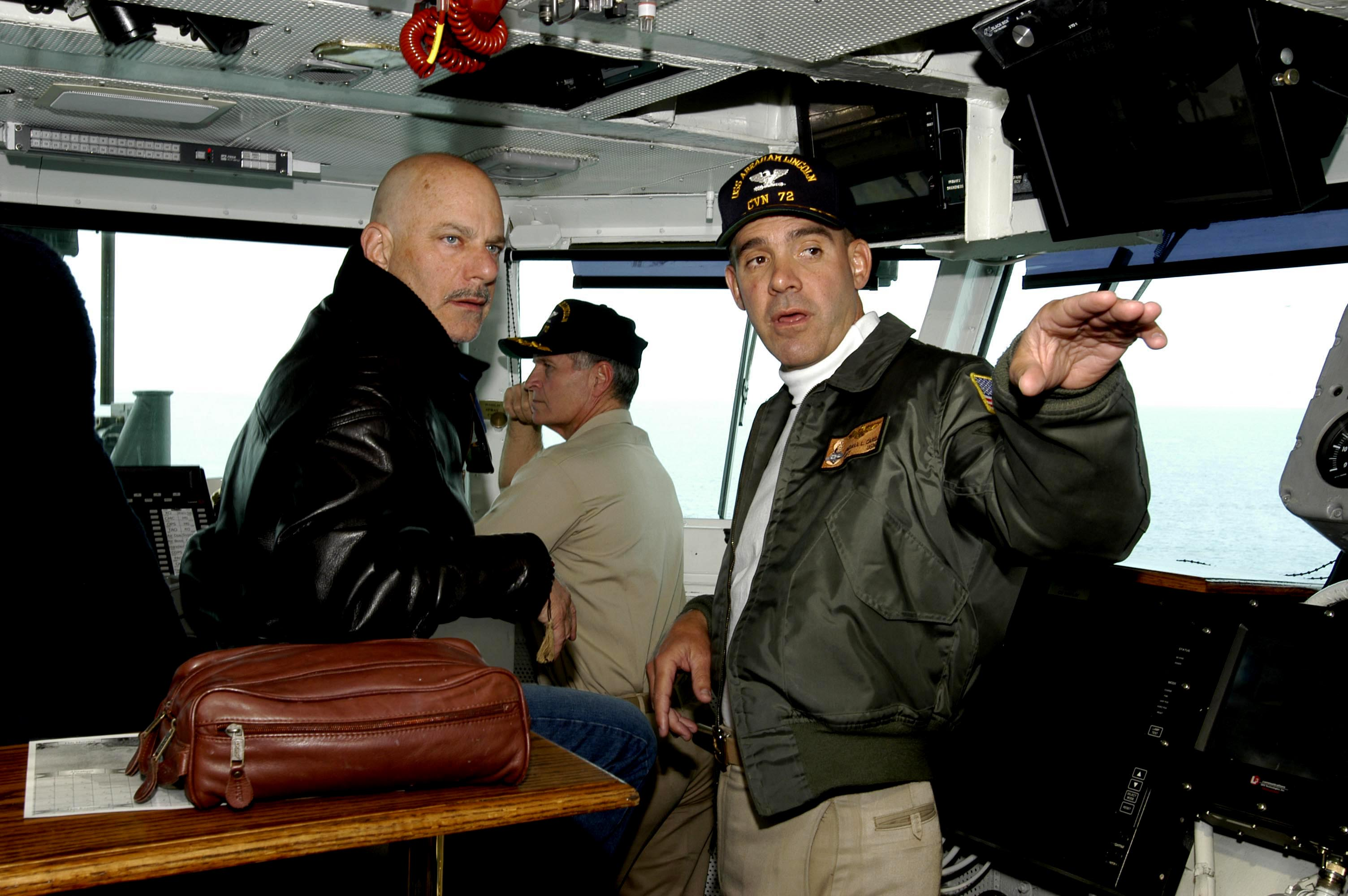 Pacific Ocean (Jun. 18, 2004) - Director Rob Cohen visits with Commanding Officer, USS Abraham Lincoln (CVN 72), Capt. Kendall L. Card, on the bridge after the completion of filming, the upcoming motion picture "Stealth." Lincoln is conducting local operations in preparation for deployment next year after 10 months of dry docked Planned Incremental Availability (PIA). U.S. Navy photo by Photographer's Mate 3rd Class Tyler J. Clements (RELEASED)